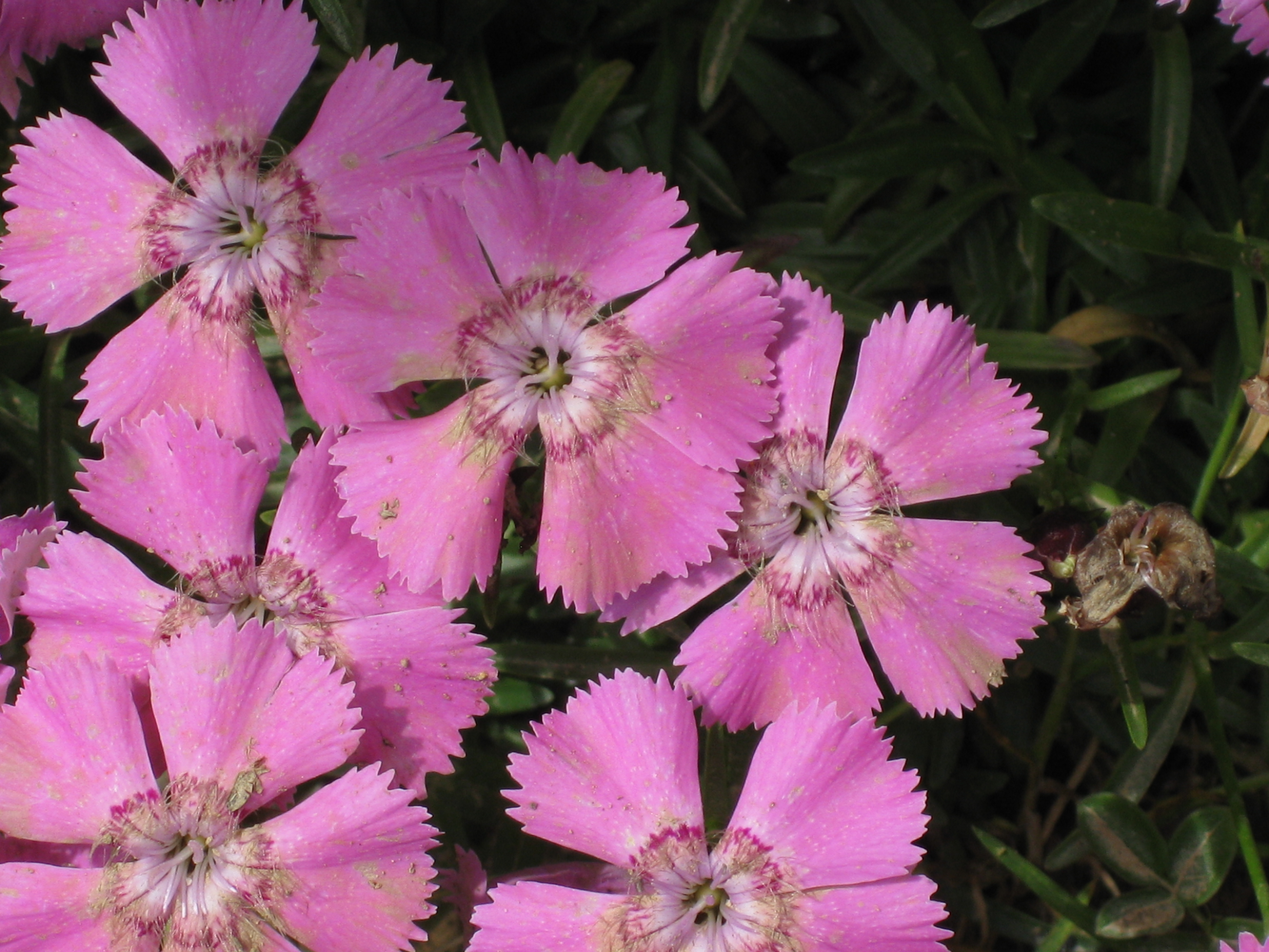 Dianthus alpinus in the Jardin Botanique Alpin du Lautaret